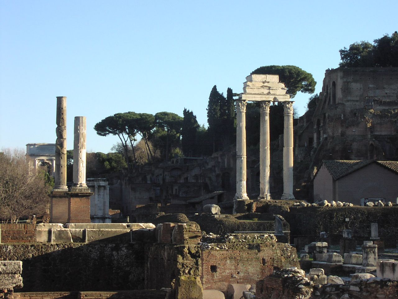 The temple of Castor and Pollux today.